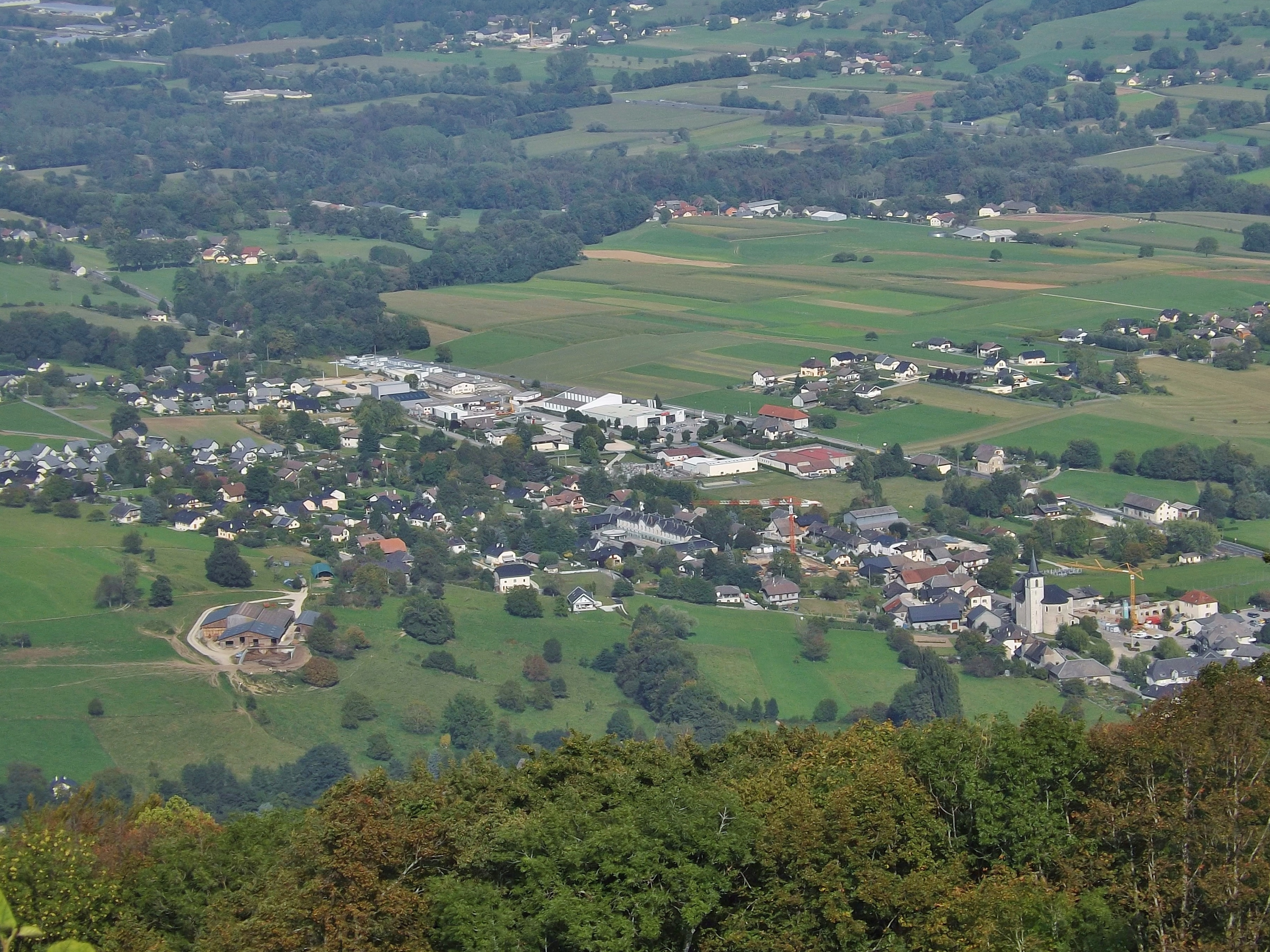 Aerien sight, from the Chambotte mountain, on the French commune and village of La Biolle, near Aix-les-Bains, in Savoie.